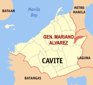 Map of Cavite showing the location of General Mariano Alvarez